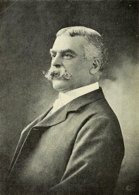 Portrait of British engineer Francis Hepburn Chevallier-Boutell (1851-1937), elected president of the Argentine Football Association in 1900.